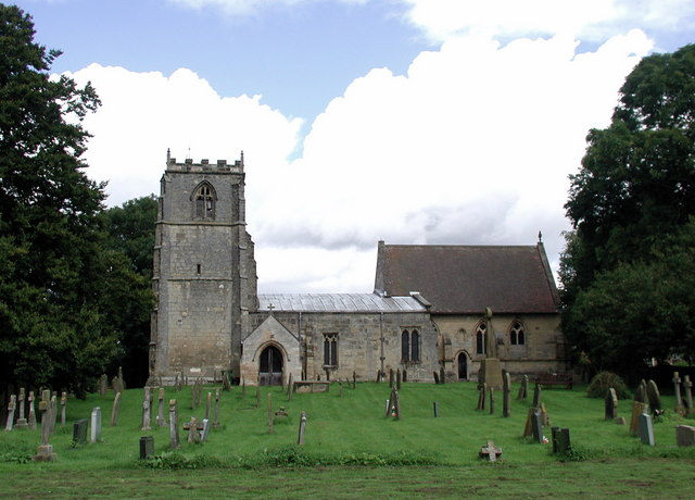 All Saints' parish church, Low Catton, East Riding of Yorkshire, England, seen from the south.A church was mentioned at Catton in the early 13th century. The church was described as ruinous in 1676 and was repaired and restored in 1859 to 1866 and again in 1908. The east window in the new chancel is by William Morris.